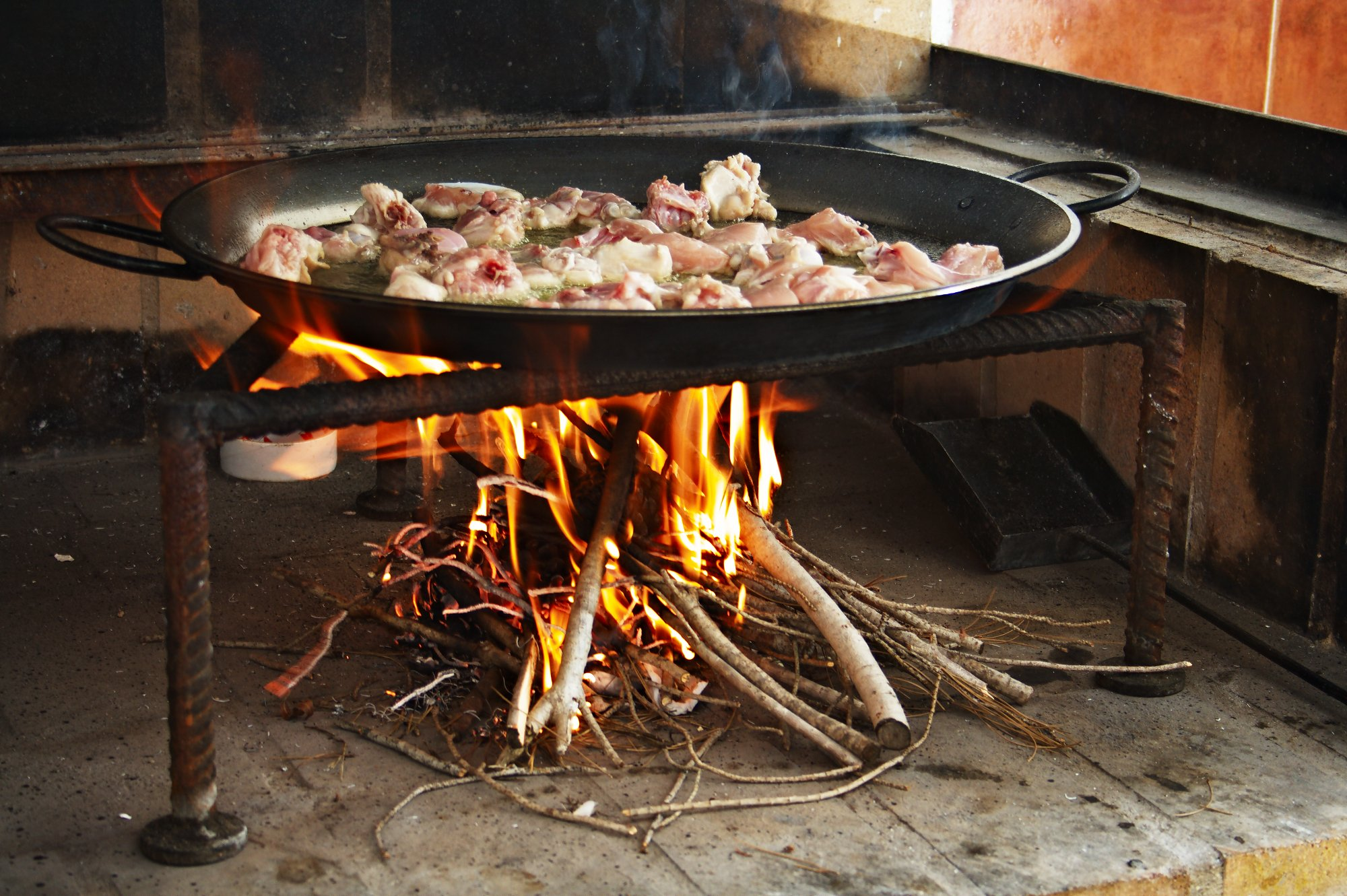 Making a Paella : roasting gently the meat